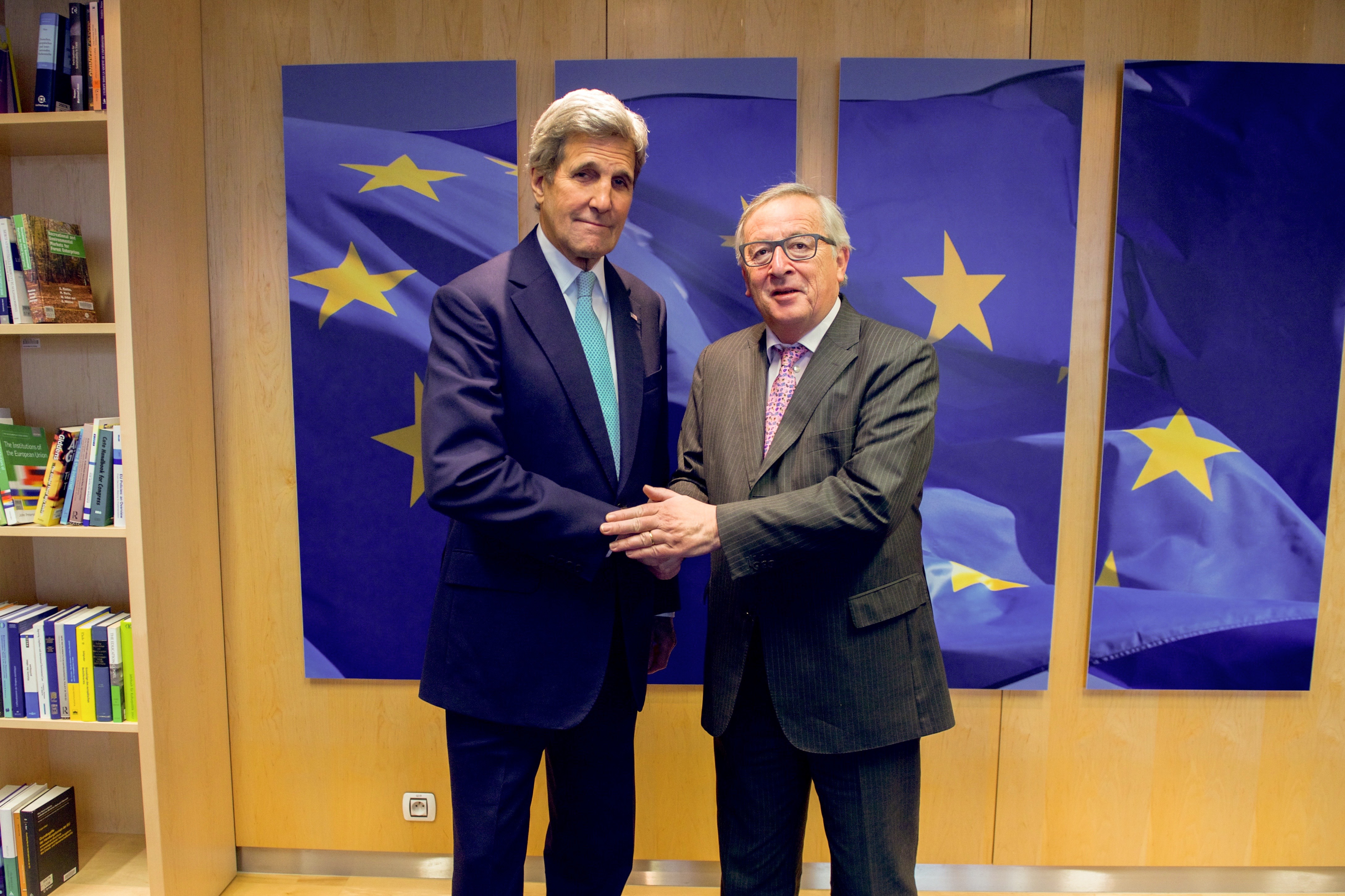 U.S. Secretary of State John Kerry shakes hands with European Commission President Jean-Claude Juncker after he arrived at Berlaymont – the E.C. headquarters - in Brussels, Belgium, on March 25, 2016, to pay condolences on behalf of the American people following the twin terrorists attacks earlier in the week on the city and country. [State Department photo/ Public Domain]